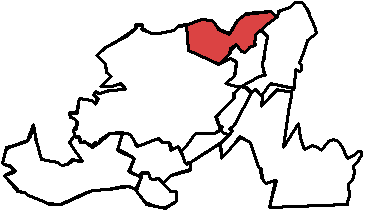 Maps based on images by Earl Warren, from the 2007 elections